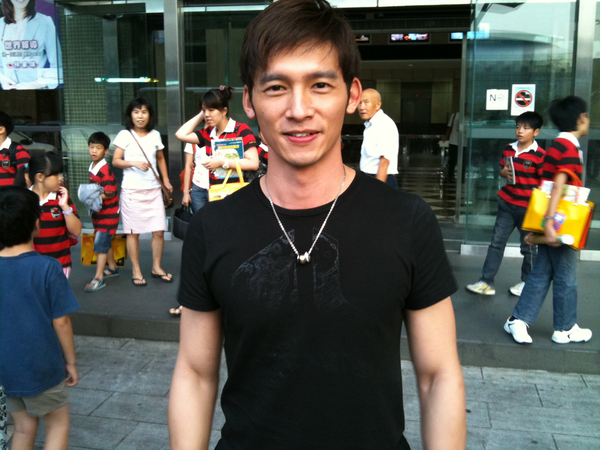 The Taiwanese actor ShenHao Wen (Chinese: 溫昇豪).